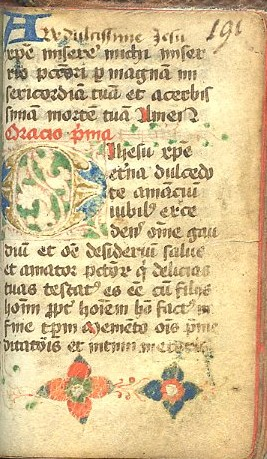 Miniature Prayer Book In Latin, illuminated manuscript on parchment Germany, right folio